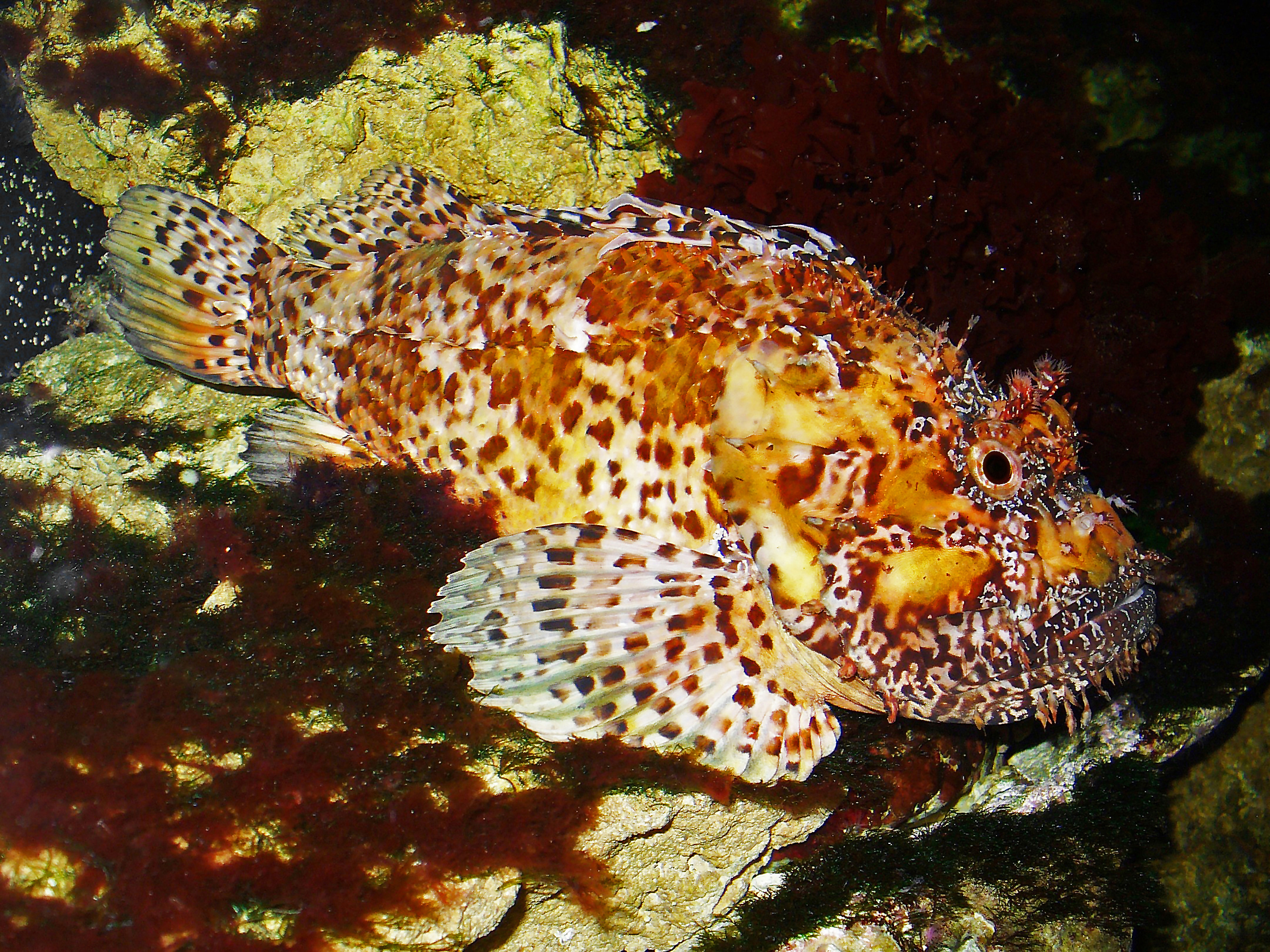 Scorpaena scrofa; Scorpaenidae, Largescaled Scorpionfish; Staatliches Museum für Naturkunde Karlsruhe, Germany.